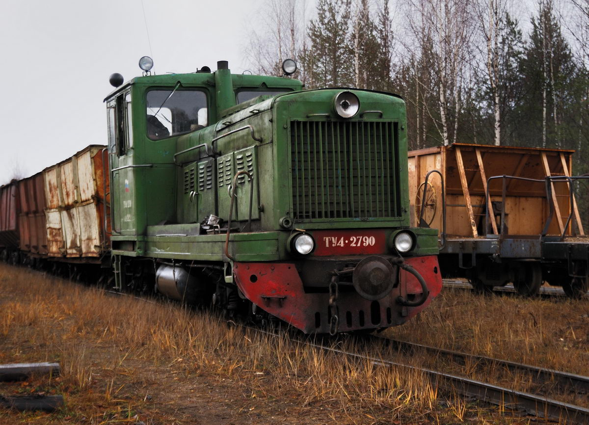 Narrow-gauge railway of Dymnogo peat enterprise